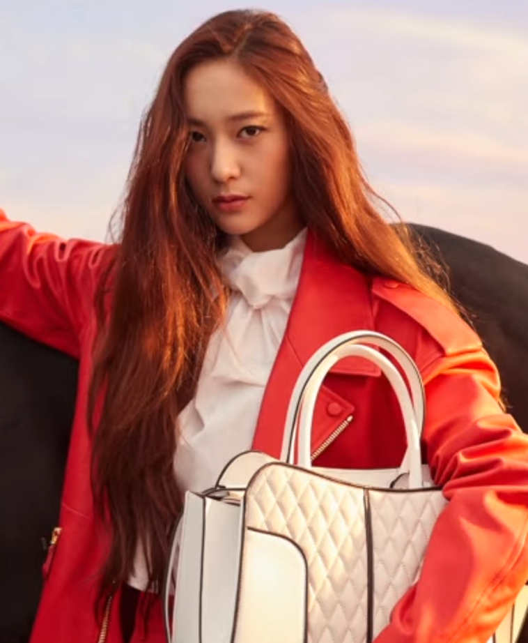 Krystal Jung for Marie Claire Korea on July 2017.